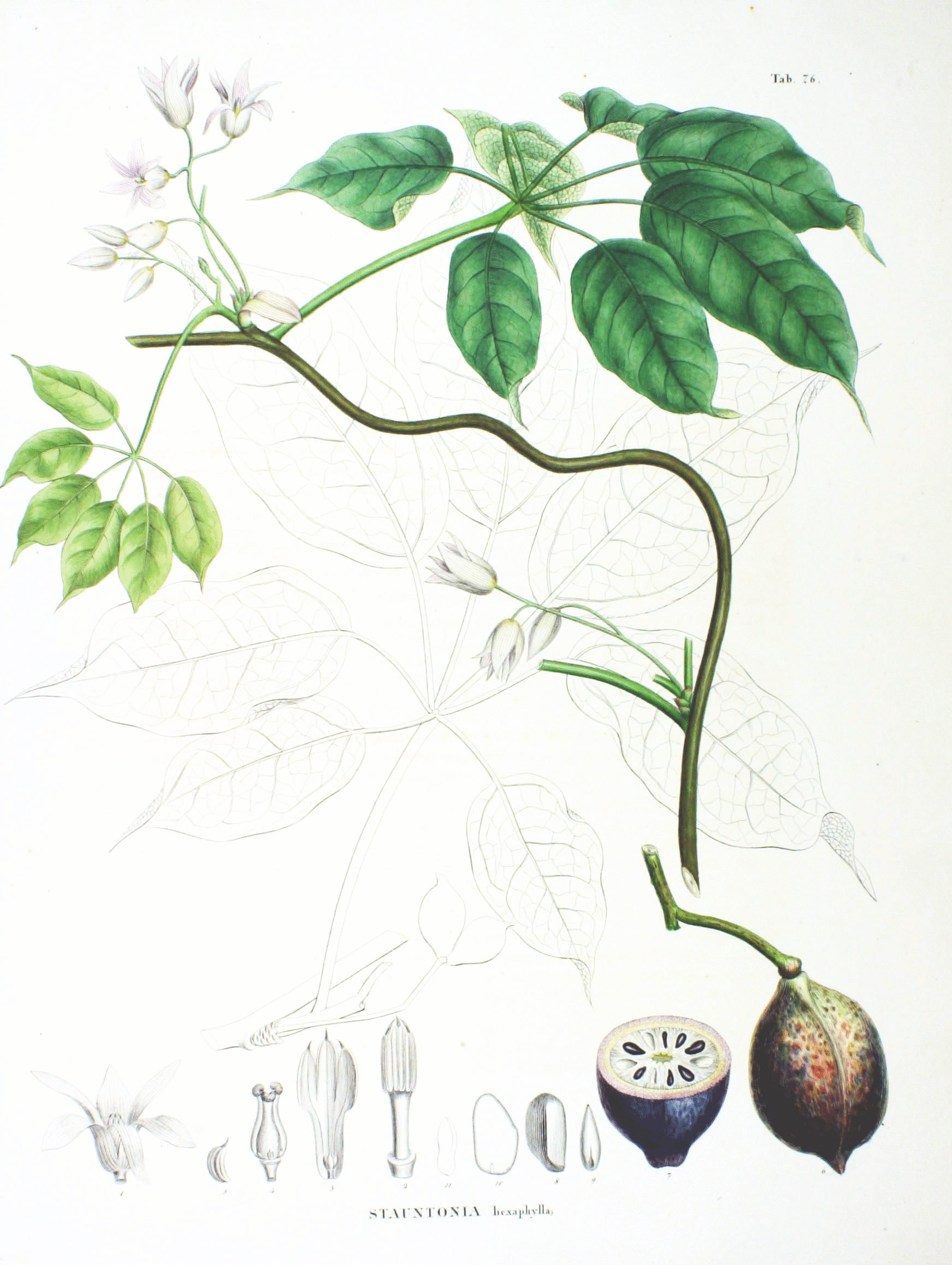 Plate from book